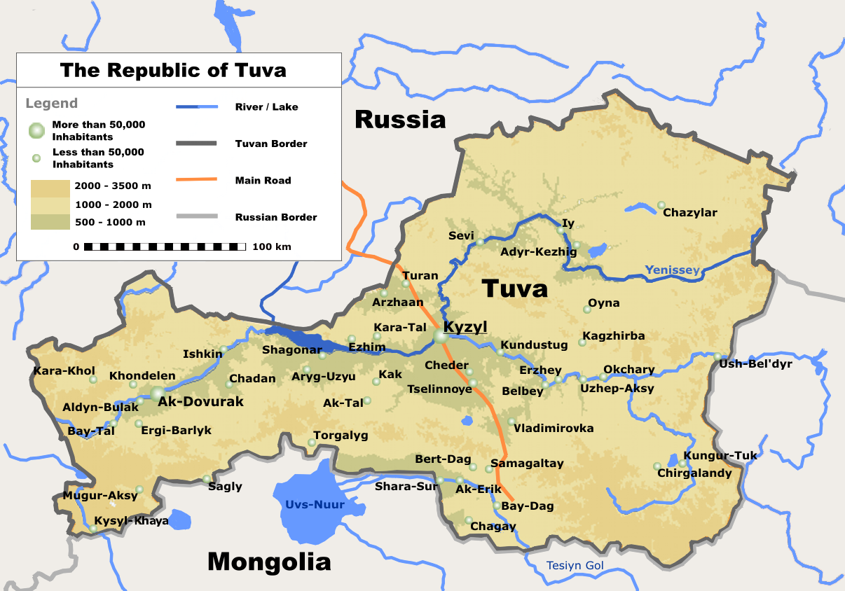 Map of Tuva English version by Peter Fitzgerald Derived from Image:Tuwakarte2.png Base work author: Roger Zenner map: Tuva Republic Map of: Tuva Republic.